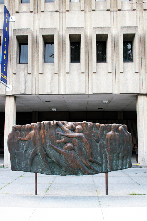 "Untitled" (1973) by William M McElcheran on St. Joseph Street at St. Michael's College, University of Toronto, Toronto, Ontario, Canada.